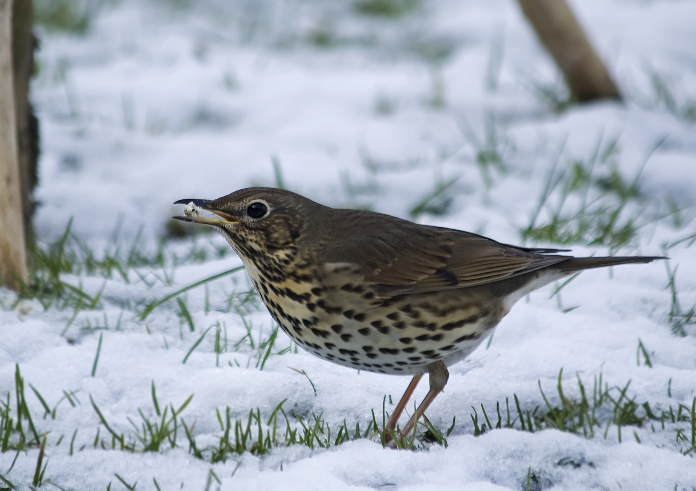 song thrush again!!!